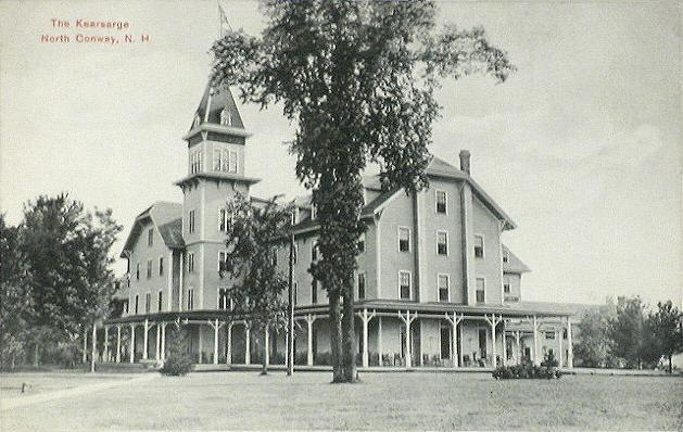 The Kearsarge House, North Conway, NH; from a c. 1910 postcard. This was one of North Conway's early grand hotels.